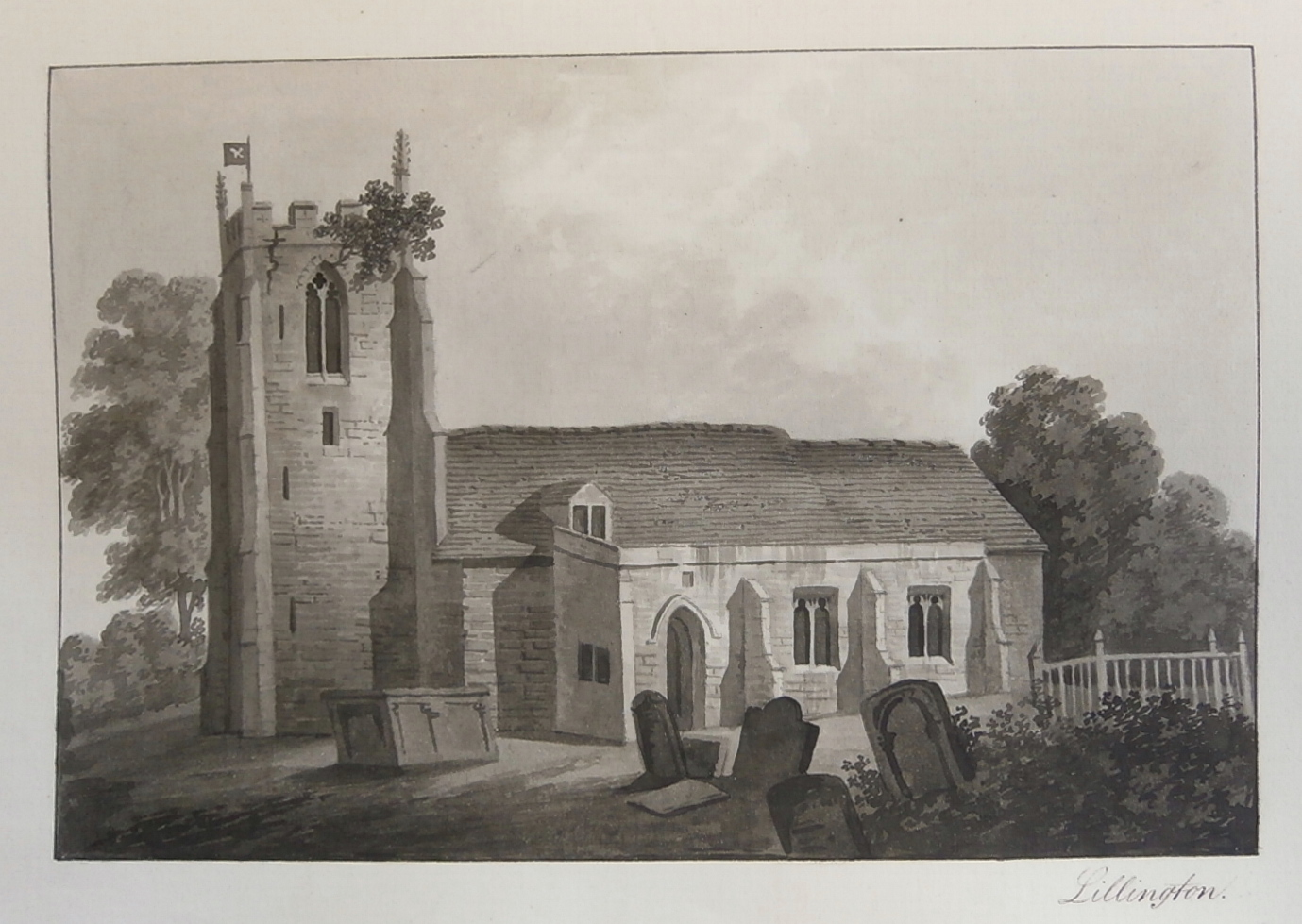 Parish Church of St Mary Magdalene, Lillington, Warwickshire, seen from the south about 1810. In this view the short south aisle is seen as it was until the restoration of the church in 1847.